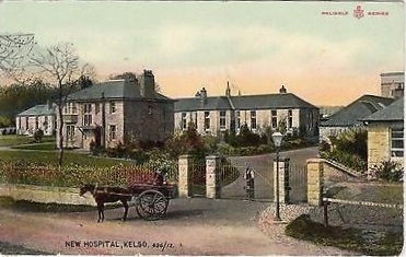 Old postcard of Kelso Hospital, Roxburghshire